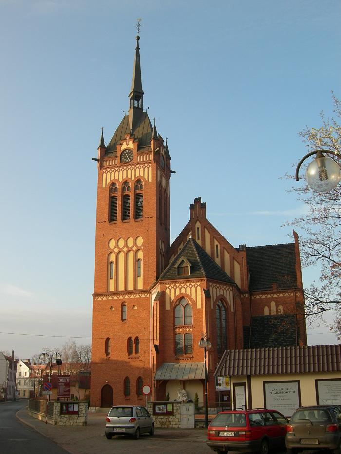 Saint Nicolas church in Kędzierzyn, Poland; built 1901-1902 after designs from architect Ludwig Schneider